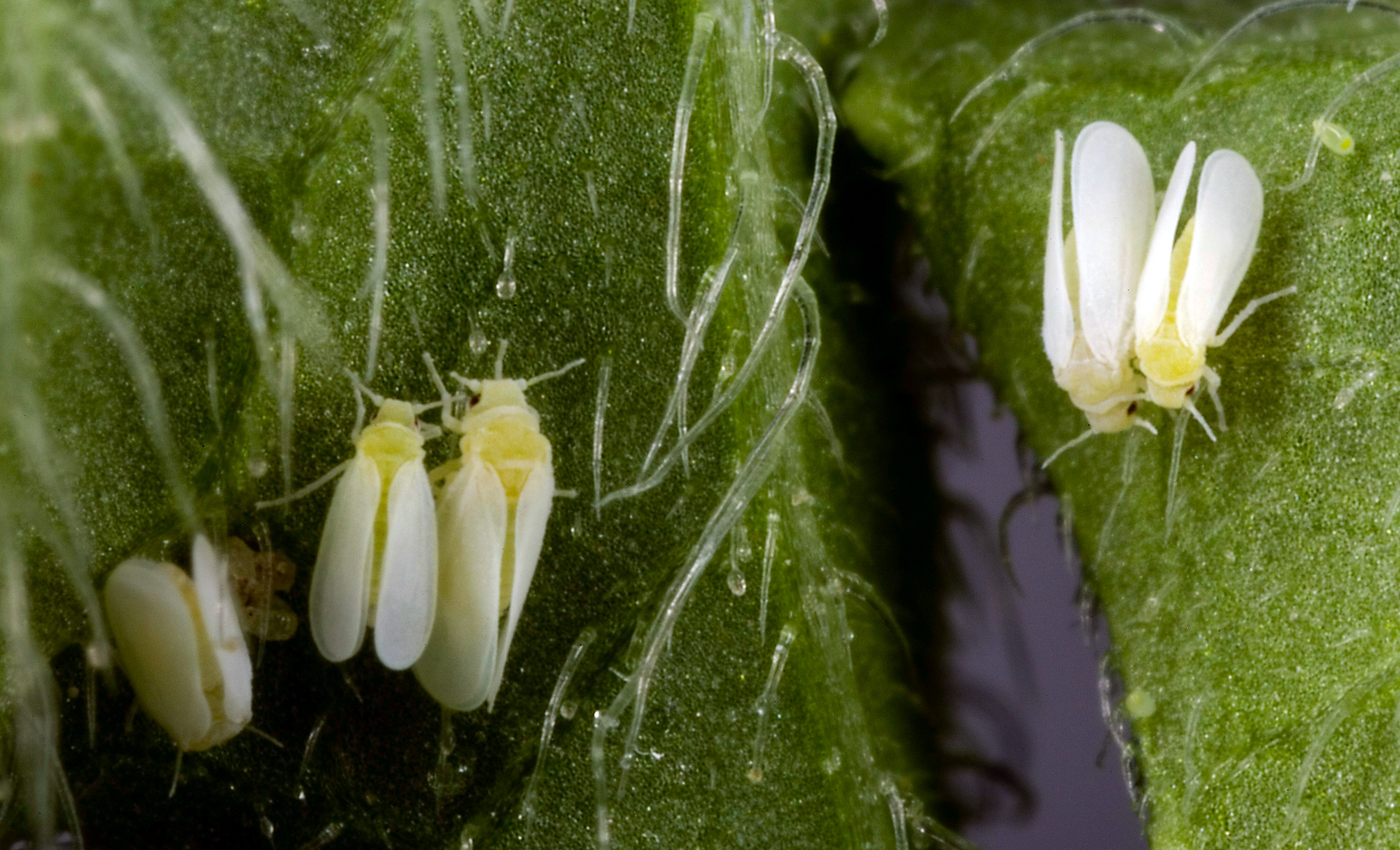 Adults of Bemisia tabaci (Rhynchota: Aleyrodidae)